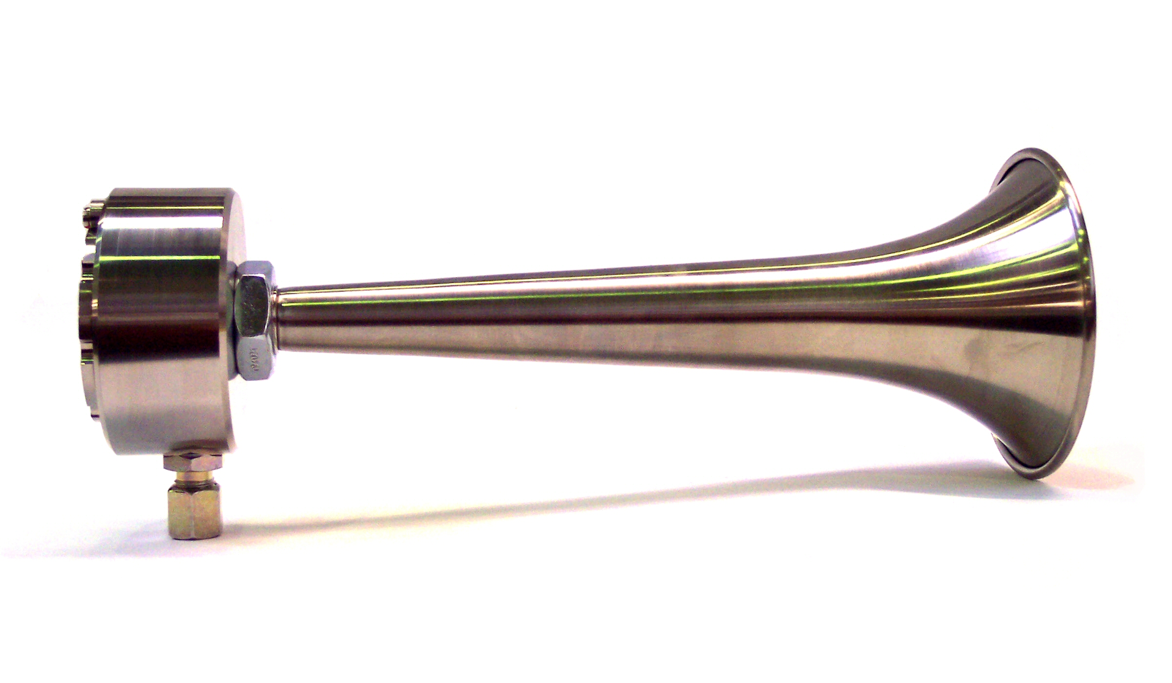 Pneumatic horn that serves as an acoustic signaler of an alarm system (fire detection system / fire suppression system)